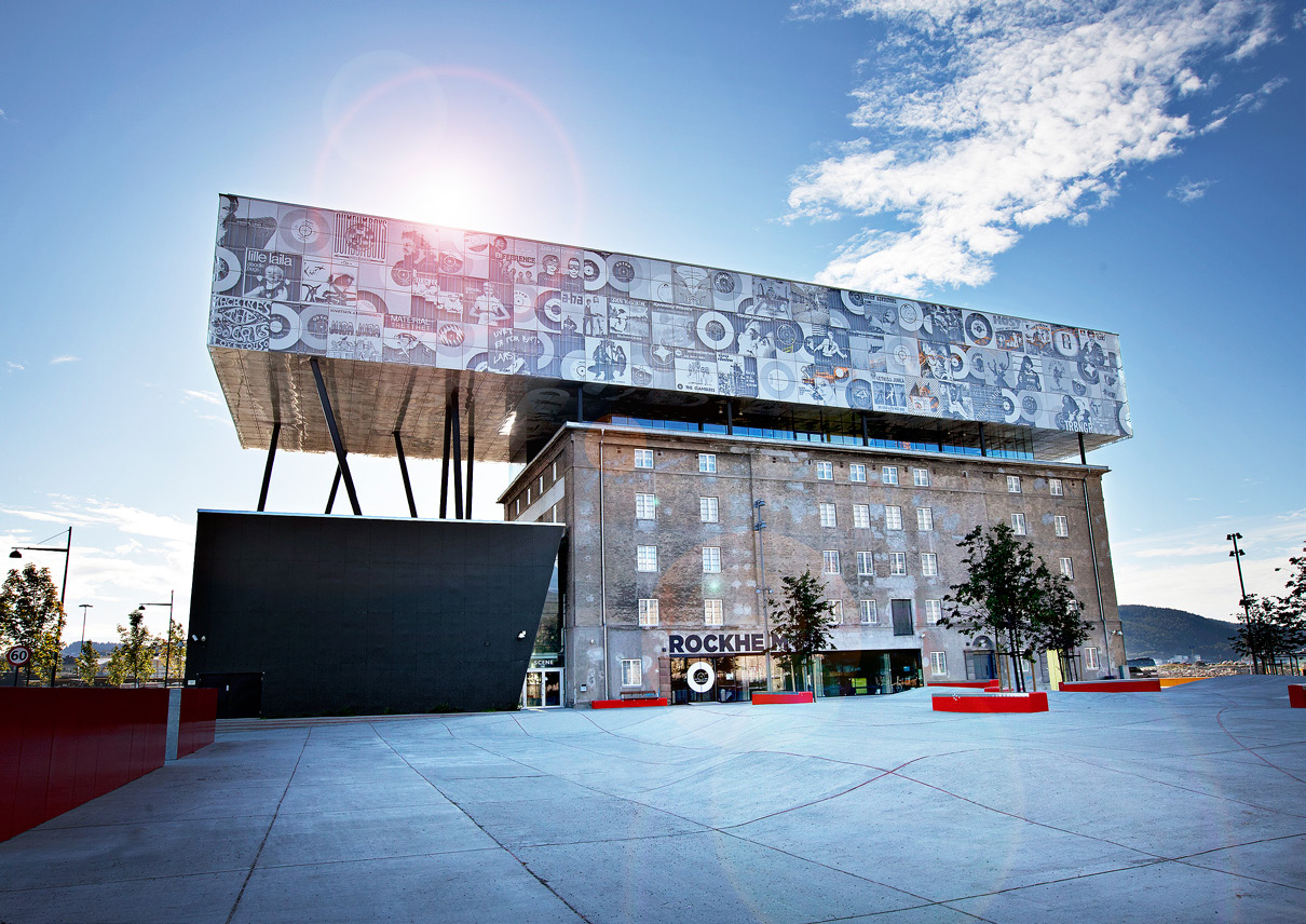 Rockheim. The Norwegian national museum of popular music.